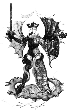 Rebis Figure. Androgyne with Goats’ Heads. symbol of Alchemical Wedding